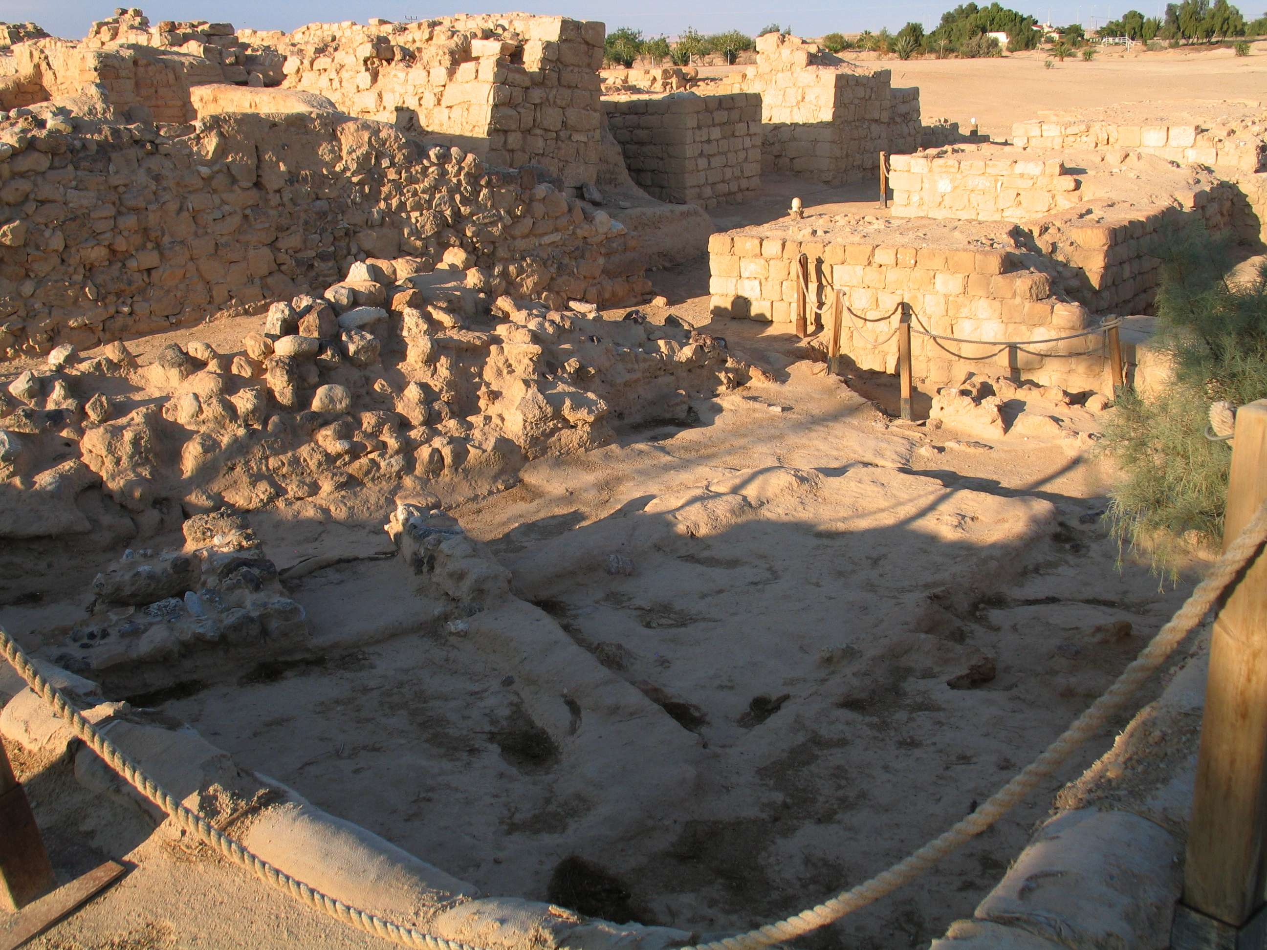 Metsad Hatseva, Israel.